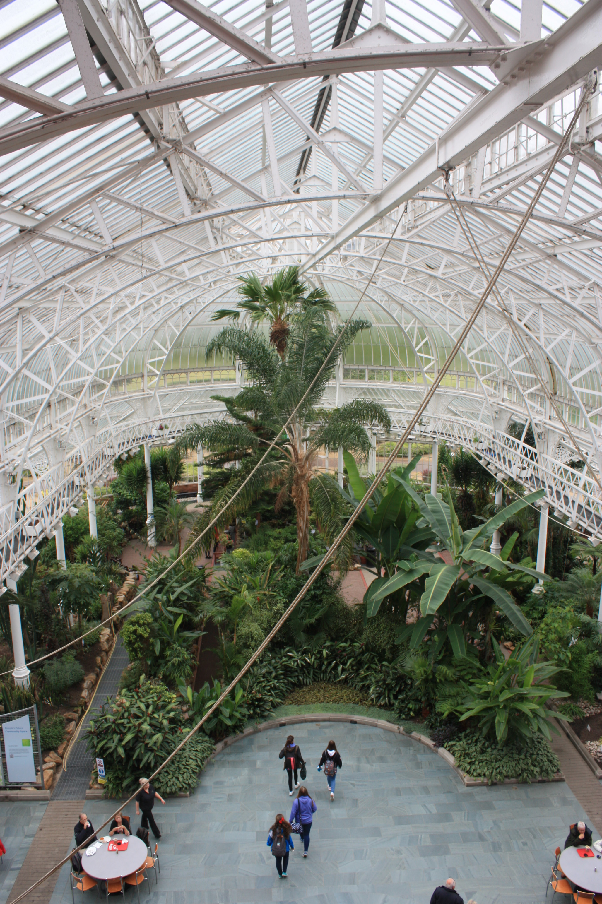 Interior, Peoples Palace, Glasgow